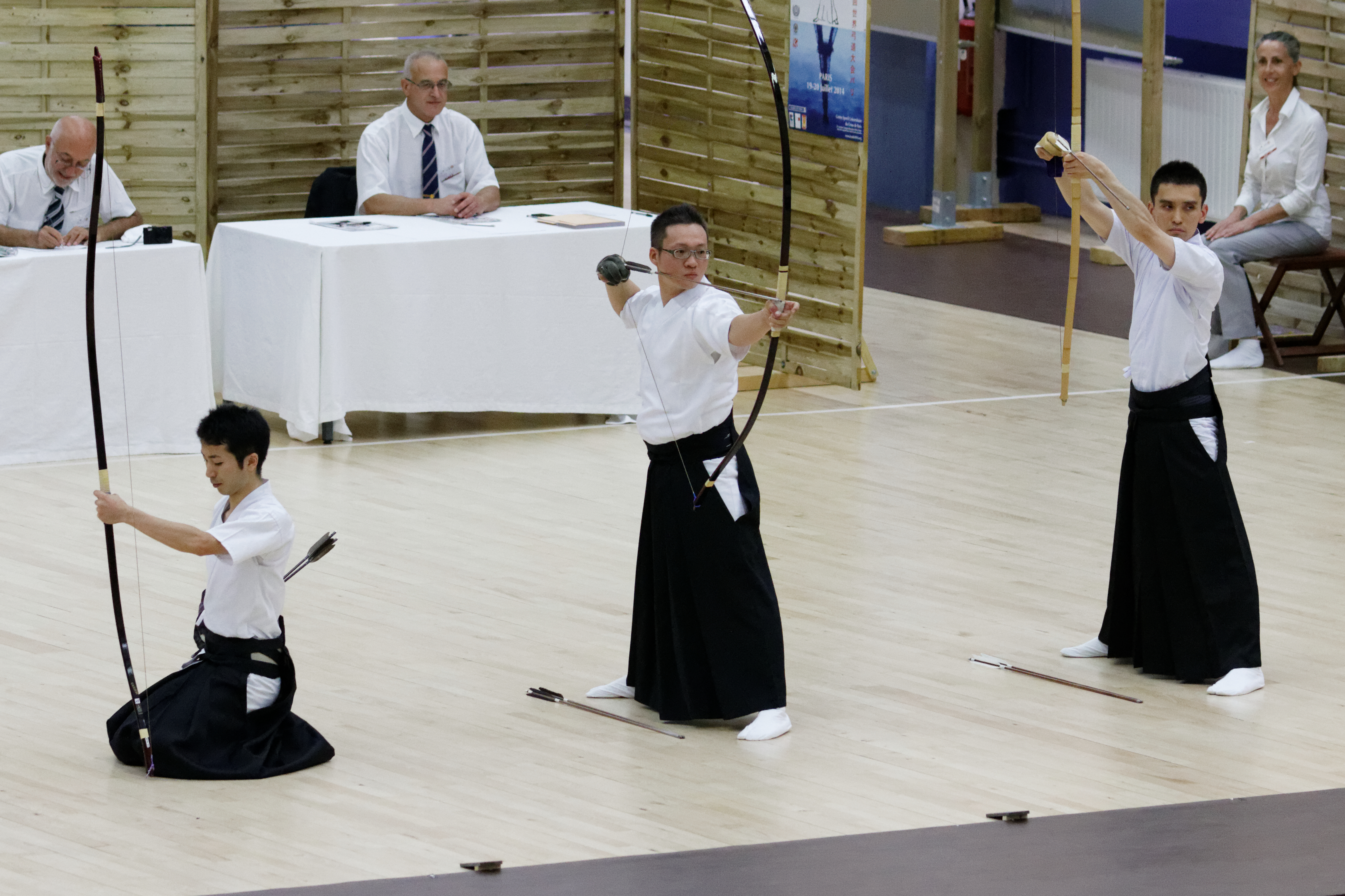 Second 2014 Kyudo World Cup, Paris. Team Competition.